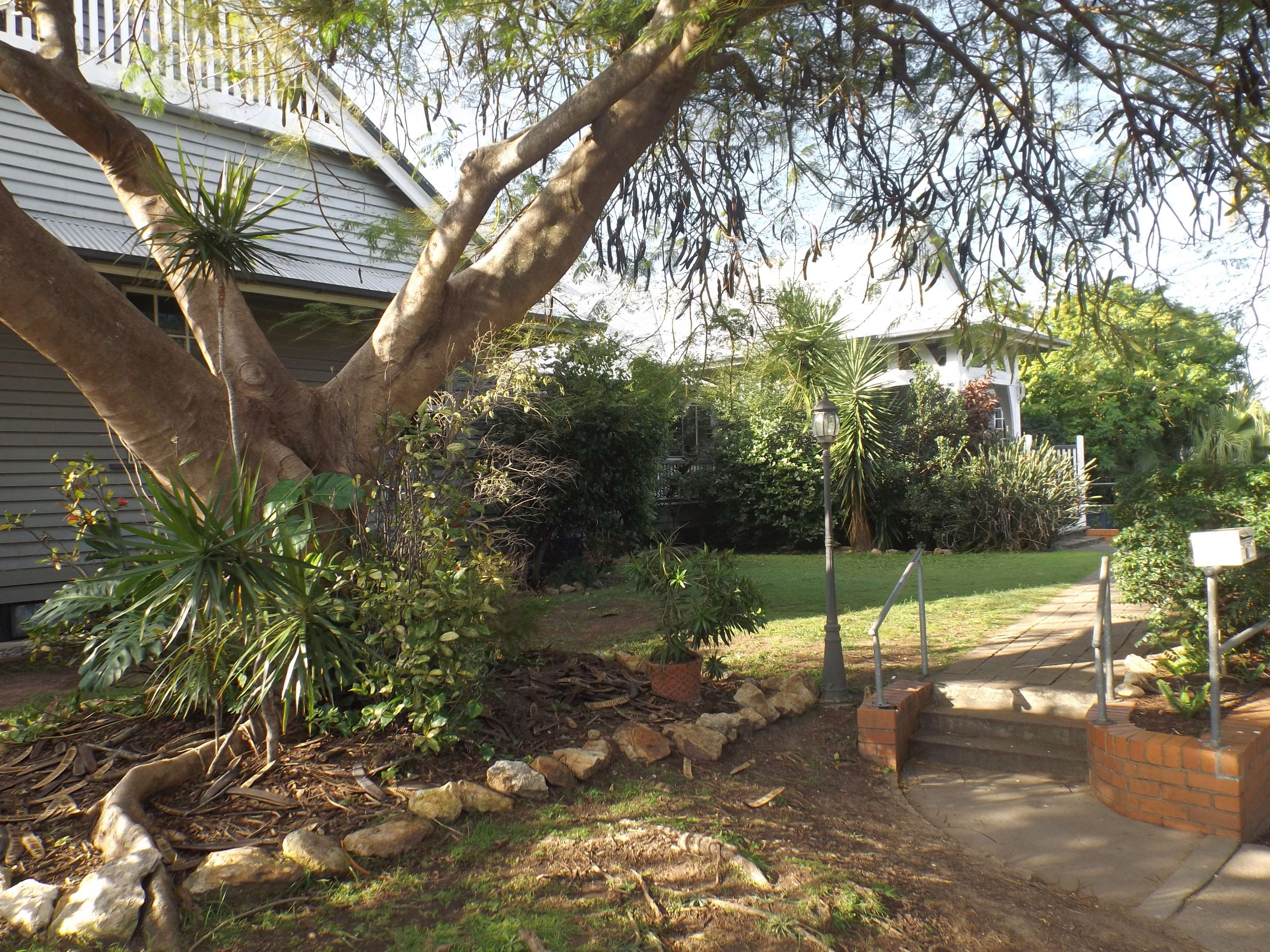 Photo of gardens and the entrance to Turrawan at Clayfield, Brisbane, Queensland, Australia.